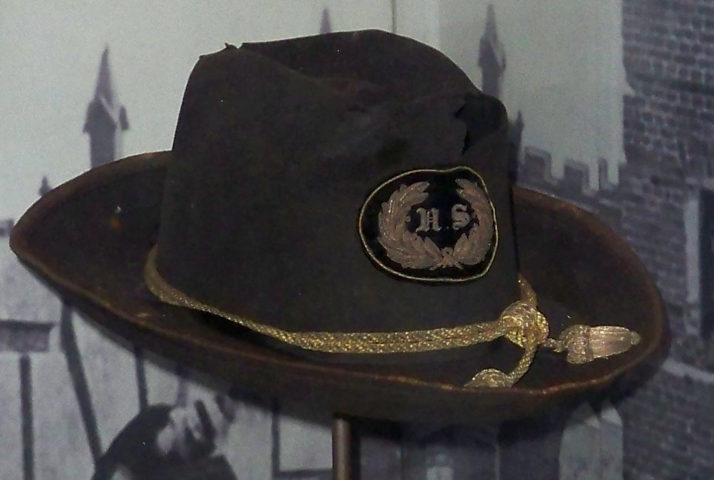 Hat worn by General Sherman on his famous March to the Sea at the Smithsonian National Museum of American History.